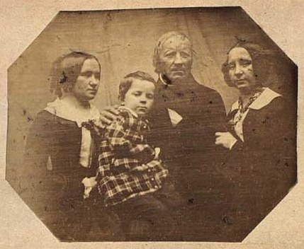 Julius Høegh-Guldberg (1779-1861) with three of his children: Sophie Wilhelmine Høegh-Guldberg (1816-1886), Cathrine Marie Petrea Munch née Høegh-Guldberg (1818-1892) and Christopher Julius Emil Høegh-Guldberg (1842-1907)